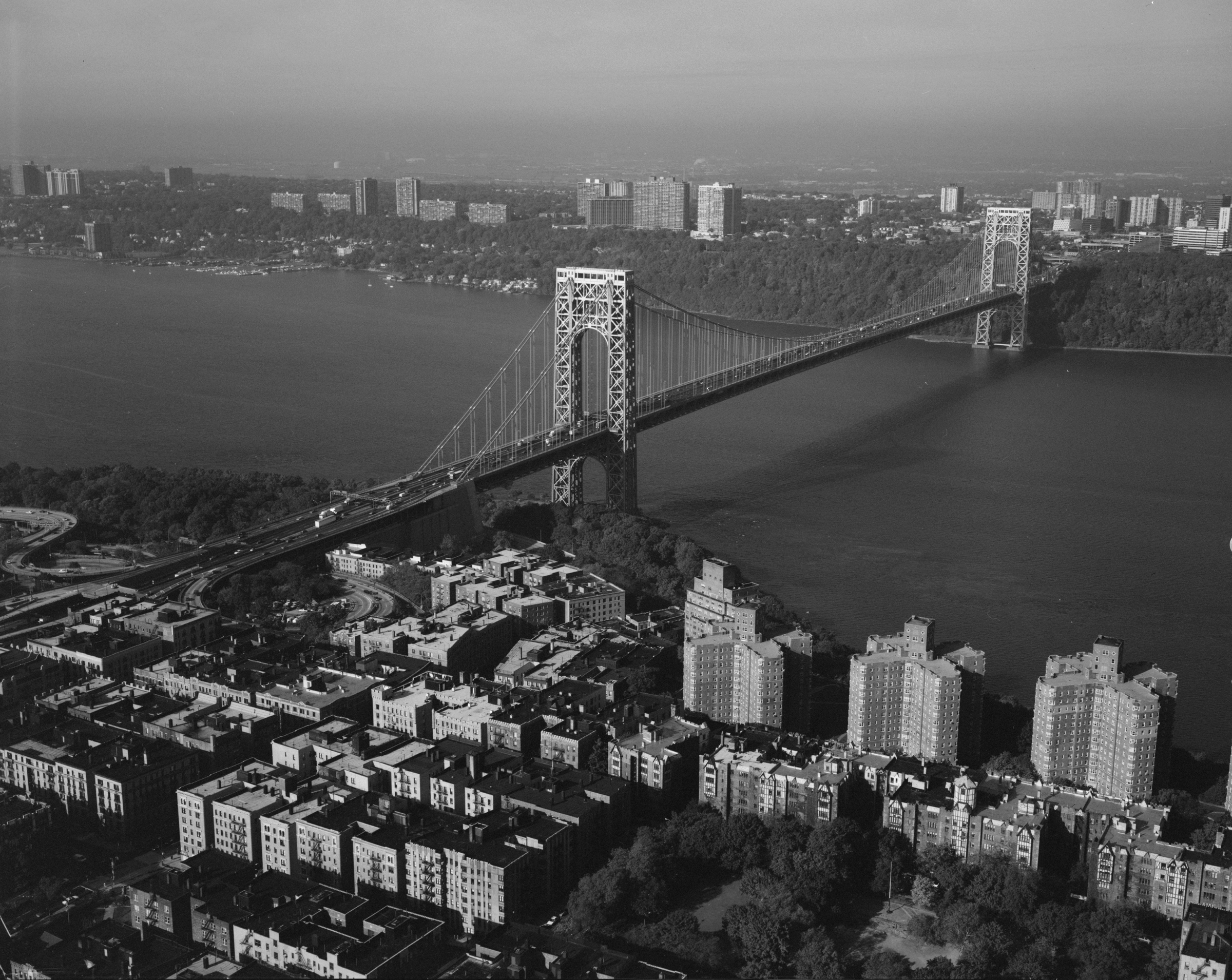 George Washington Bridge, spanning the Hudson River between New York City and New Jersey.